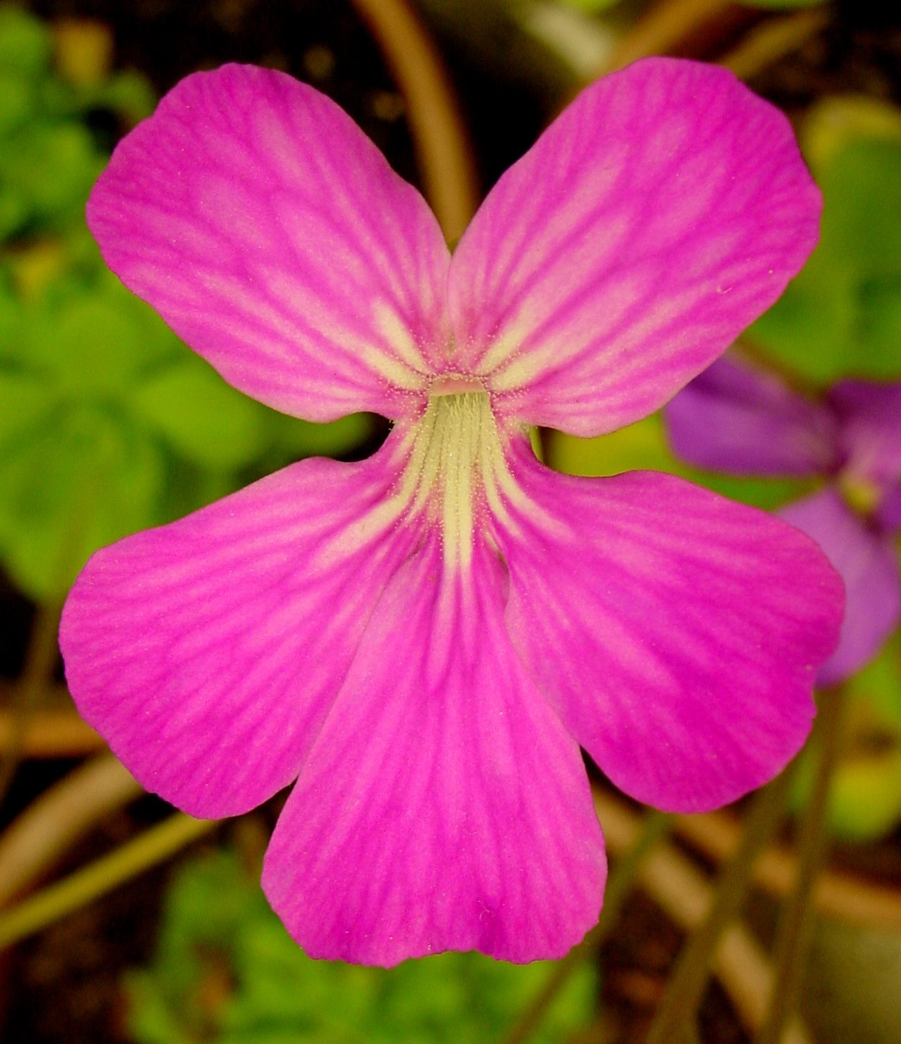 Description: Pinguicula, unknown hybrid (from Leo Song's collection). Photo by: Noah Elhardt Location: CalState Fullerton